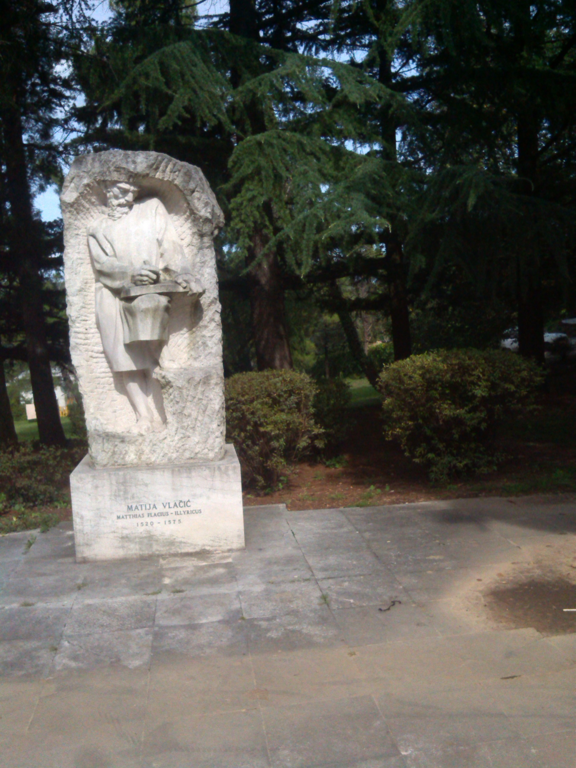 Monument in Labin